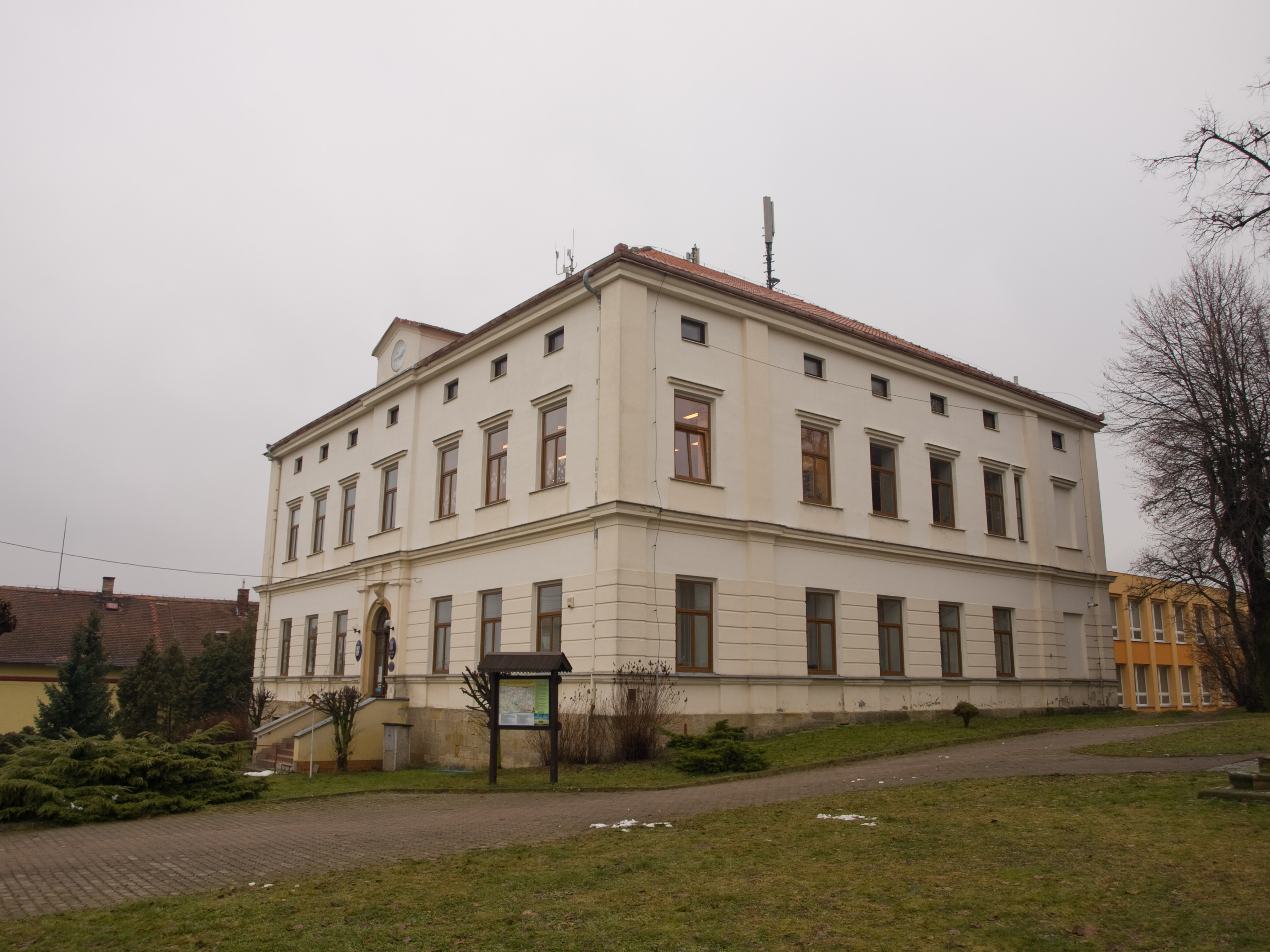 Municipaly office, Rohovládova Bělá, Pardubice District, Pardubice Region